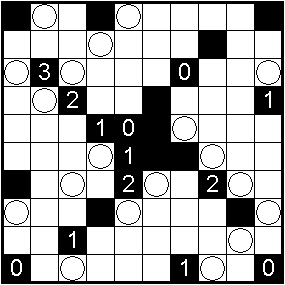 Solution for Logic Puzzle Light Up